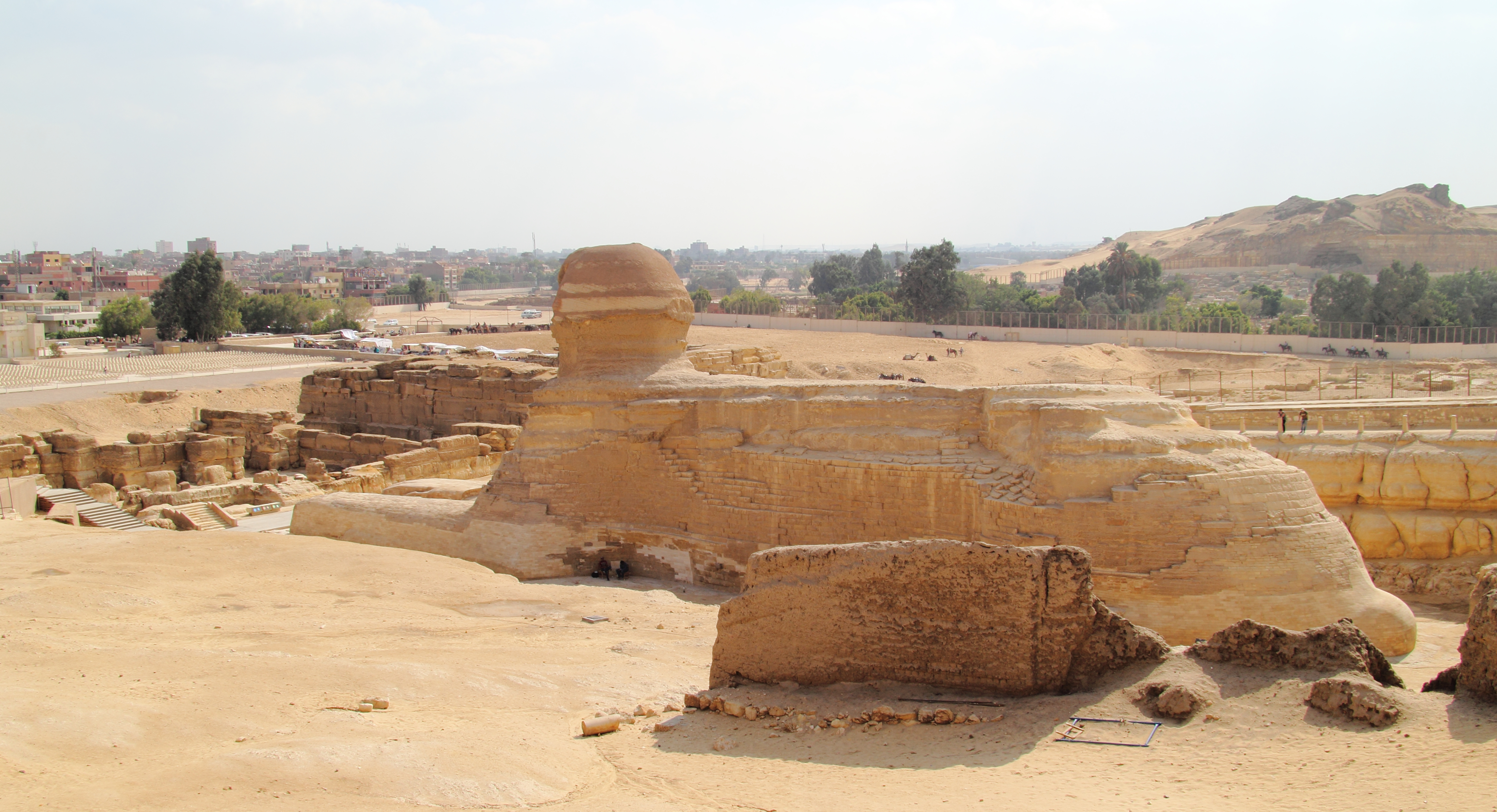 Giza, Egypt: en: Great Sphinx of Giza